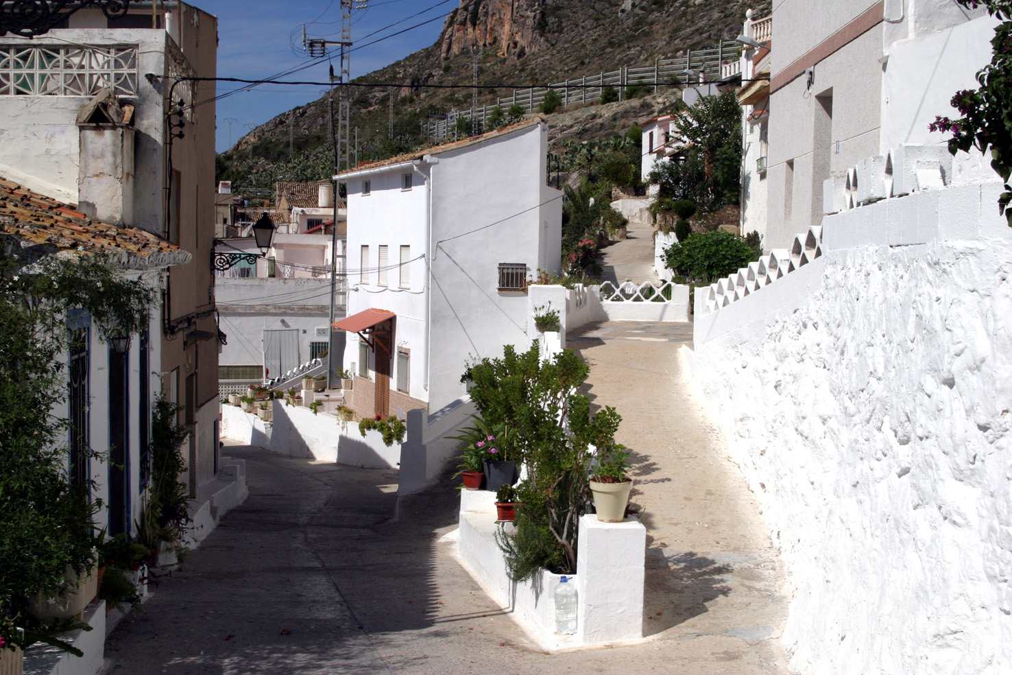 The Pozo neighbourhood